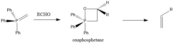 Basic Wittig reaction with oxaphosphetane intermediate